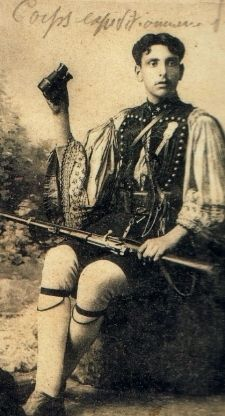 Takis Panayotopoulos